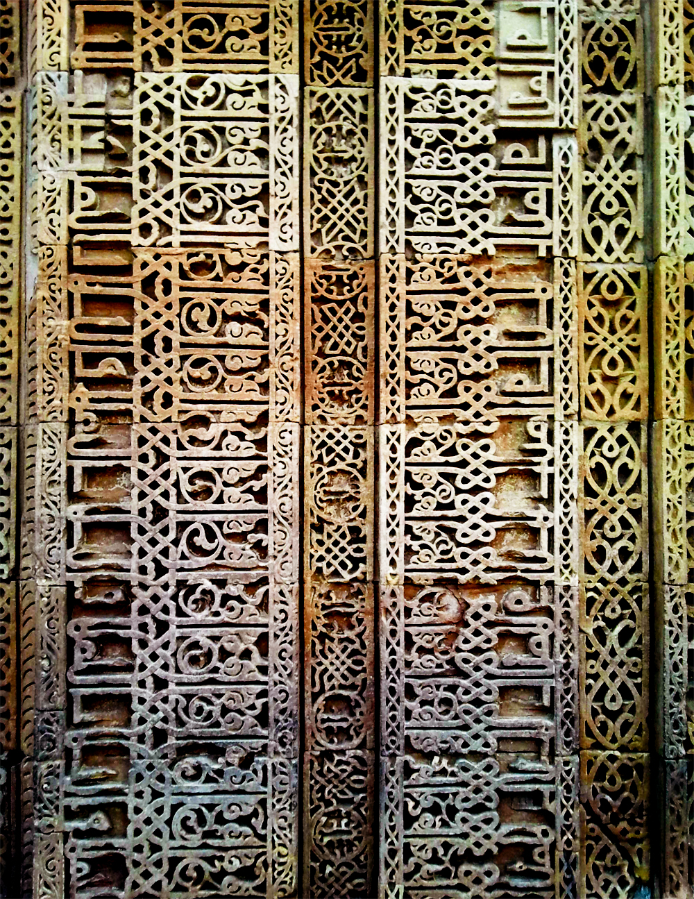 Ornate carvings and Kufic inscriptions, Adhai-din-ka-Jhopra, Ajmer.